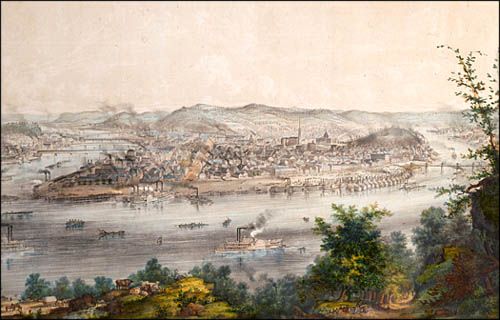 Lithograph of B. F. Smith sketch of Pittsburgh viewed from Coal Hill, 1849